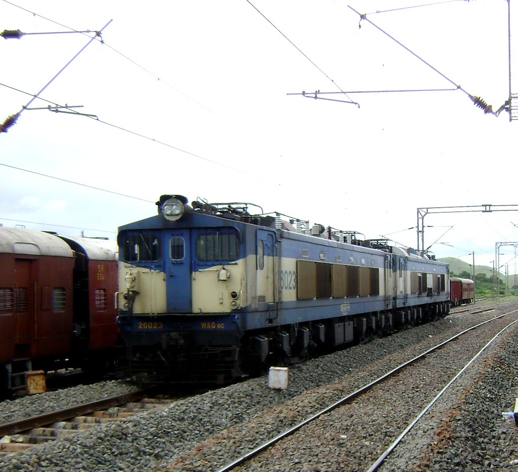 VSKP based WAG-6C locos at Koraput railway Station